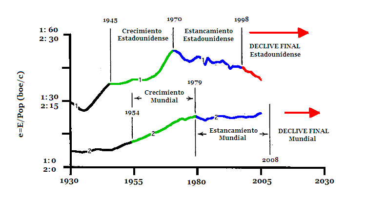 Per capita consumption of United States and the world of 1930 to 2005.